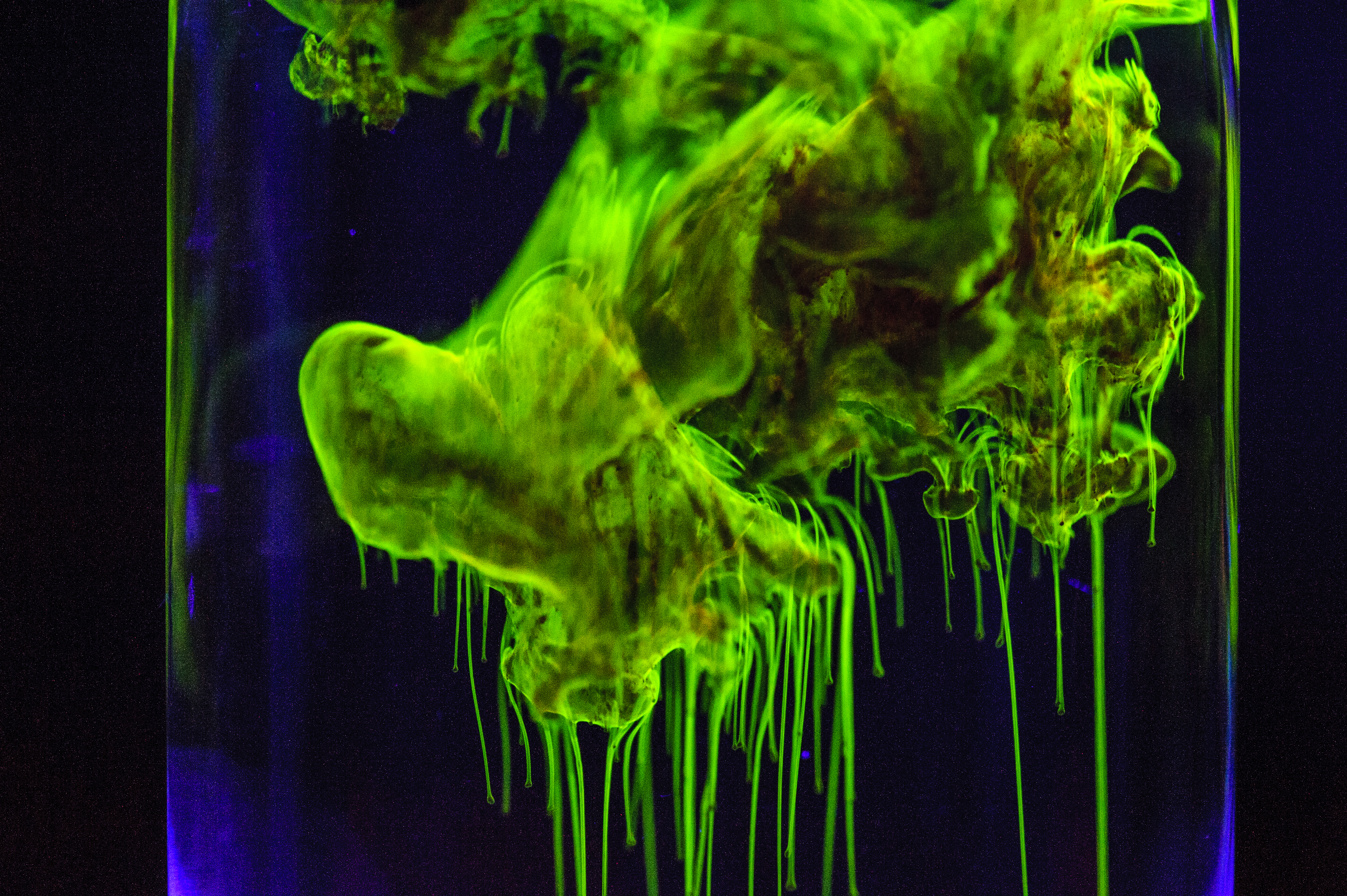 Here it can be seen fluorescein in ammonia solution, Fluorescein is a compound which submitted to ultraviolet light emits fluorescence.